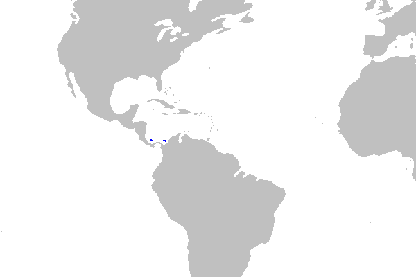 Distribution map for Galeus cadenati